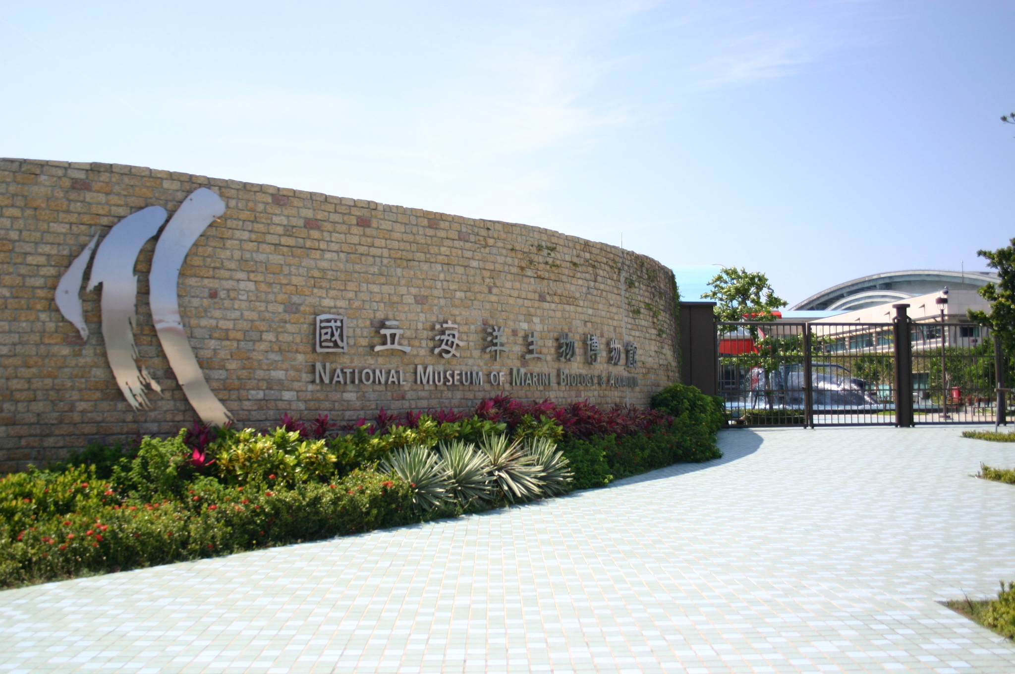 Entrance to the National Museum of Marine Biology and Aquarium中文（中国大陆）: 通往国立海洋生物博物馆的入口大门